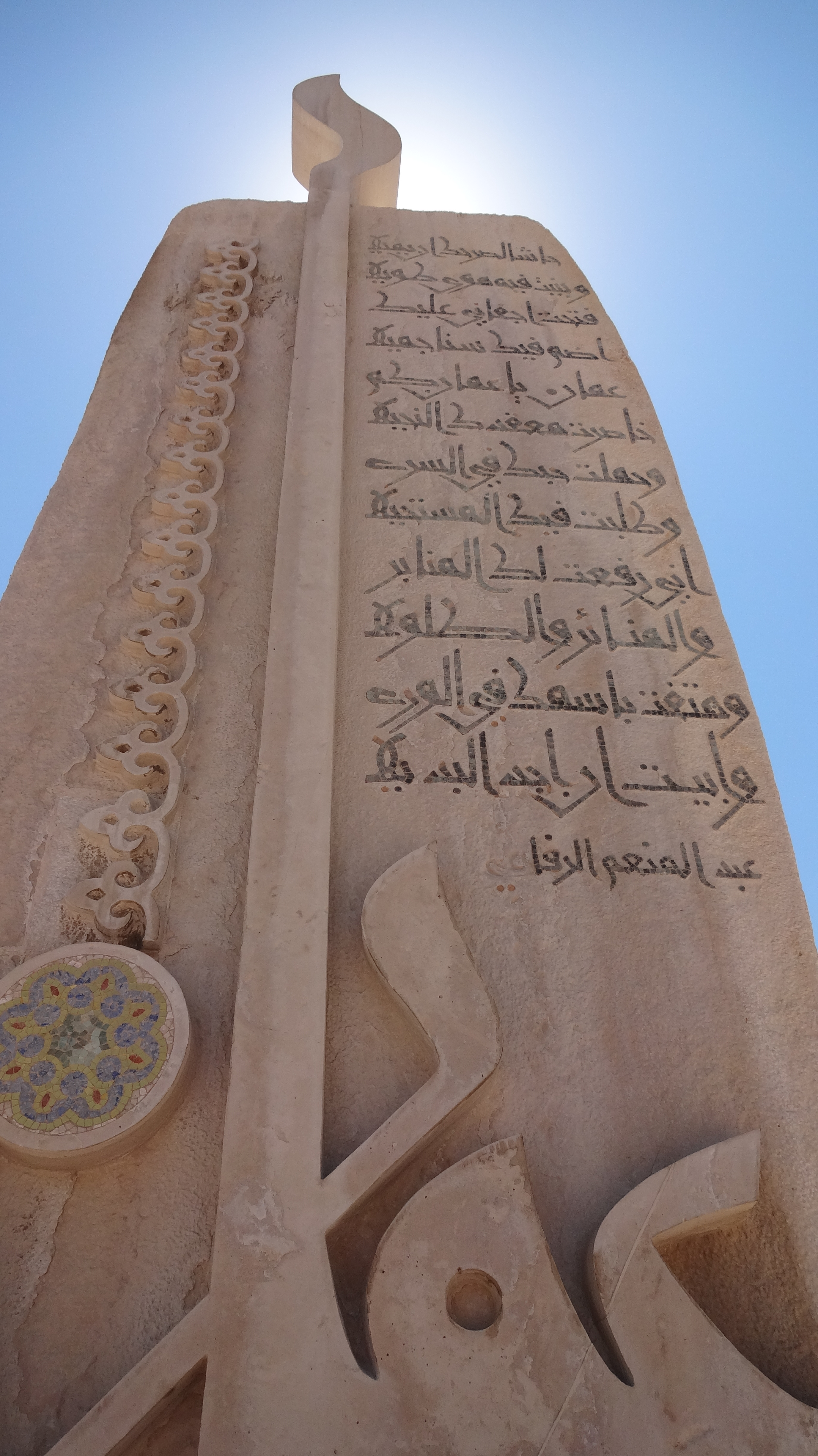 Amman Torch Statue, by Nassar Mansour and Ramadan Atour